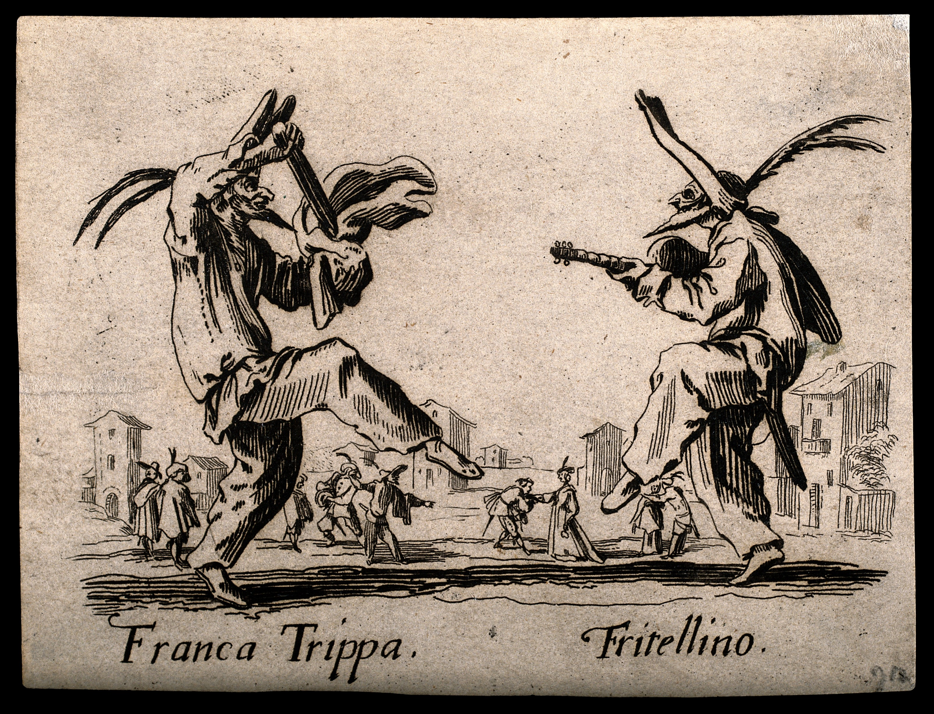 Two Commedia dell'arte street musicians performing together. Etching after J. Callot. Iconographic Collections Keywords: Franca Trippa; Fritellino; Jacques Callot